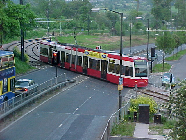 Tram crossing at Gravel Hill